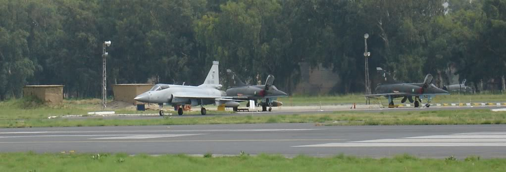 Several fighter aircraft of the Pakistan Air Force at a Pakistani airbase during flying operations. A JF-17 multi-role fighter stands near a runway. Behind it, two Dassault Mirage 5 fighters are parked with their canopies raised.